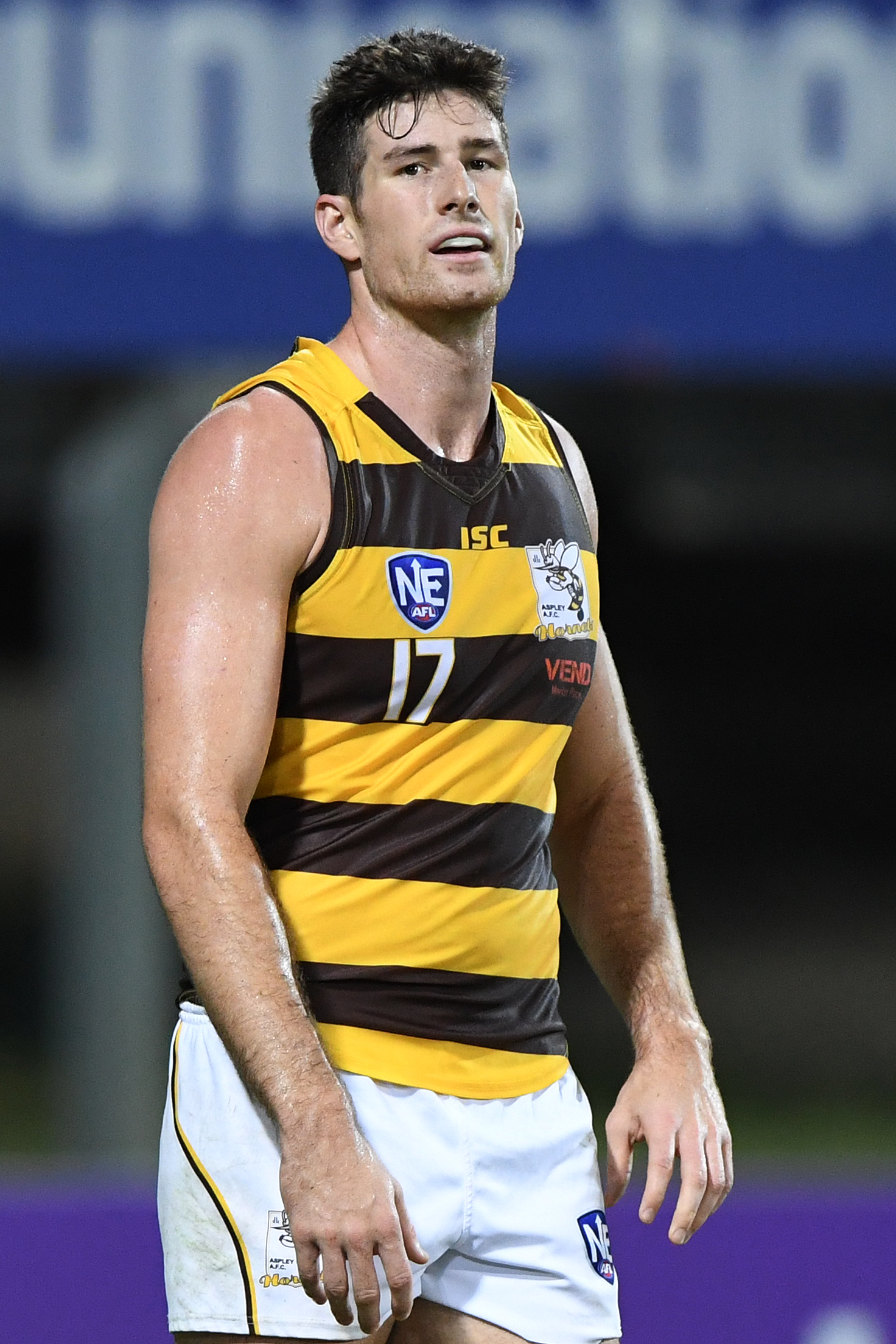 Jono Freeman of Aspley during the 2019 NEAFL round 7 match between NT Thunder and Aspley at TIO Stadium on Saturday, 18 May 2019 in Darwin, Northern Territory.